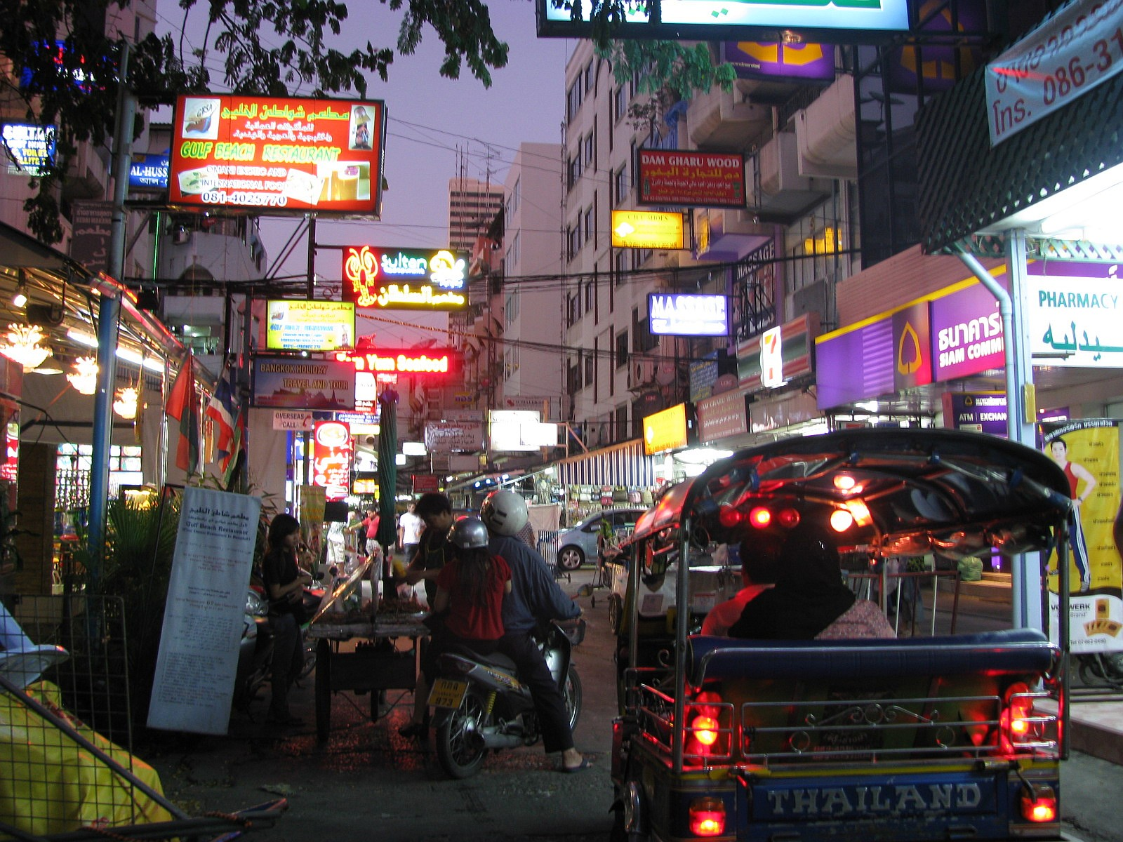 The Sukhumvit Soi 3/1. This place is located in Watthana, Bangkok, Thailand.